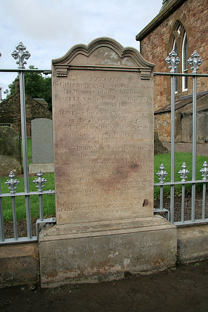 The Burns headstone The mother, brother and sister of the poet Robert Burns are buried in Bolton Parish Kirkyard within this railed enclosure. This stone was erected by Gilbert Burns in memory of his children. Gilbert, a brother of Robert Burns, was an elder of the kirk. The inscription reads:- ERECTED By GILBERT BURNS, Factor at Grants Braes, In Memory of his Children ISABELLA, who died 3rd July 1815, in the 7th year of her age, AGNES, who died 14th Septr 1815, in the 15th year of her age, JANET, who died 30th Octor 1816 in the 18th year of her age; And of his Mother, AGNES BROWN, who died 14 Janry 1820, in the 88th year of her age; whose mortal remains lie all buried here. Also of other two of his Children VIZ. JEAN, who died on the 4th of Jany 1827, in the 20th year of her age. and JOHN, who died on the 26th Feby 1827, in the 25th year of his age. GILBERT BURNS their Father died on the 8th April 1827 in the 67th year of his age. Also buried here, ANABELLA, sister of GILBERT BURNS, who died March 2nd 1832 Aged 67.